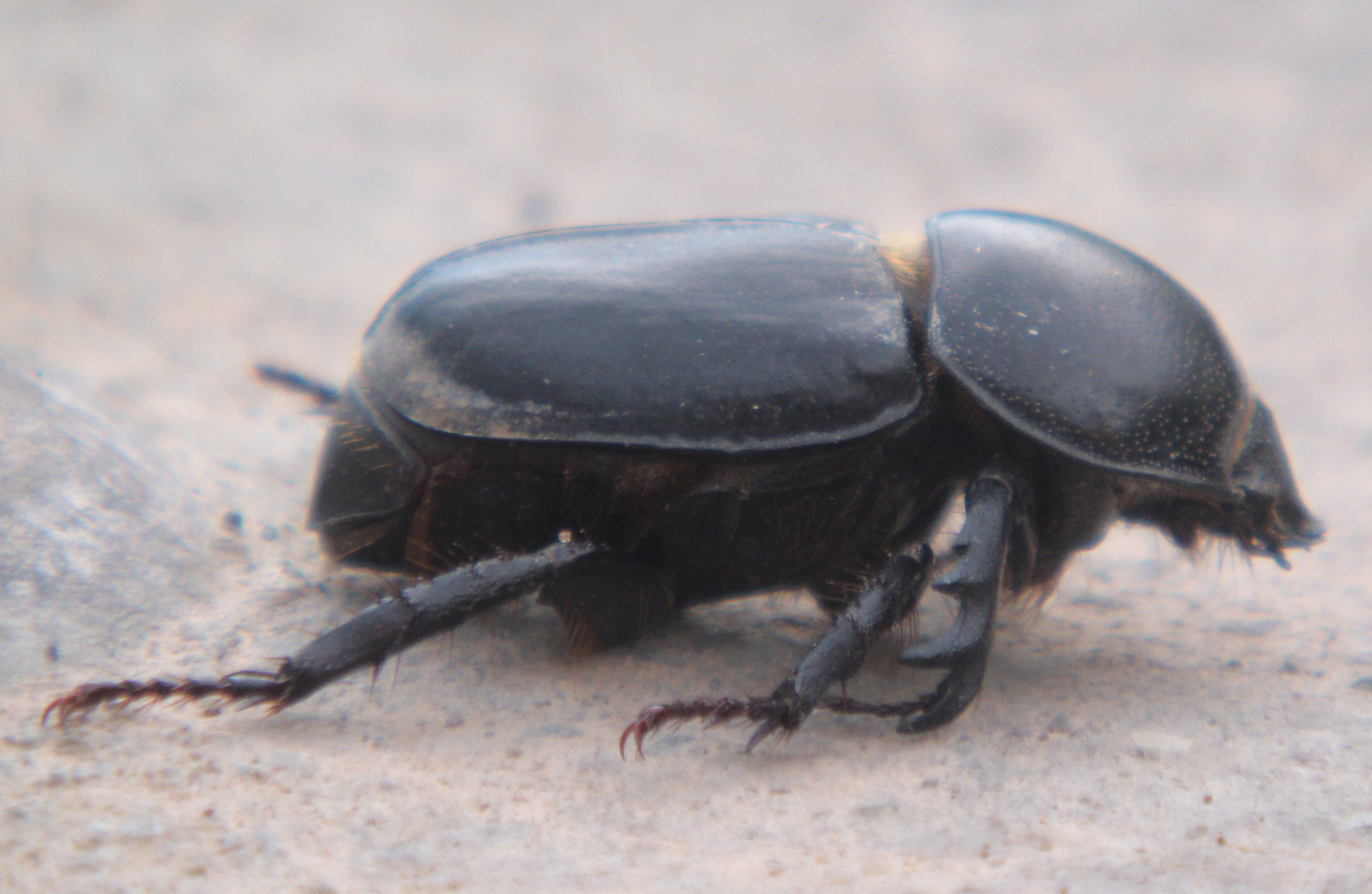 Diloboderus abderus is a beetle placed in the Coleoptera order and Melolonthidae Dynastinae family. The beetle in the picture is a female because it has no horn. The common name is horned beetle.